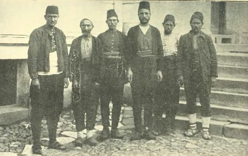 Exiled Macedonian Turks, circa 1914.